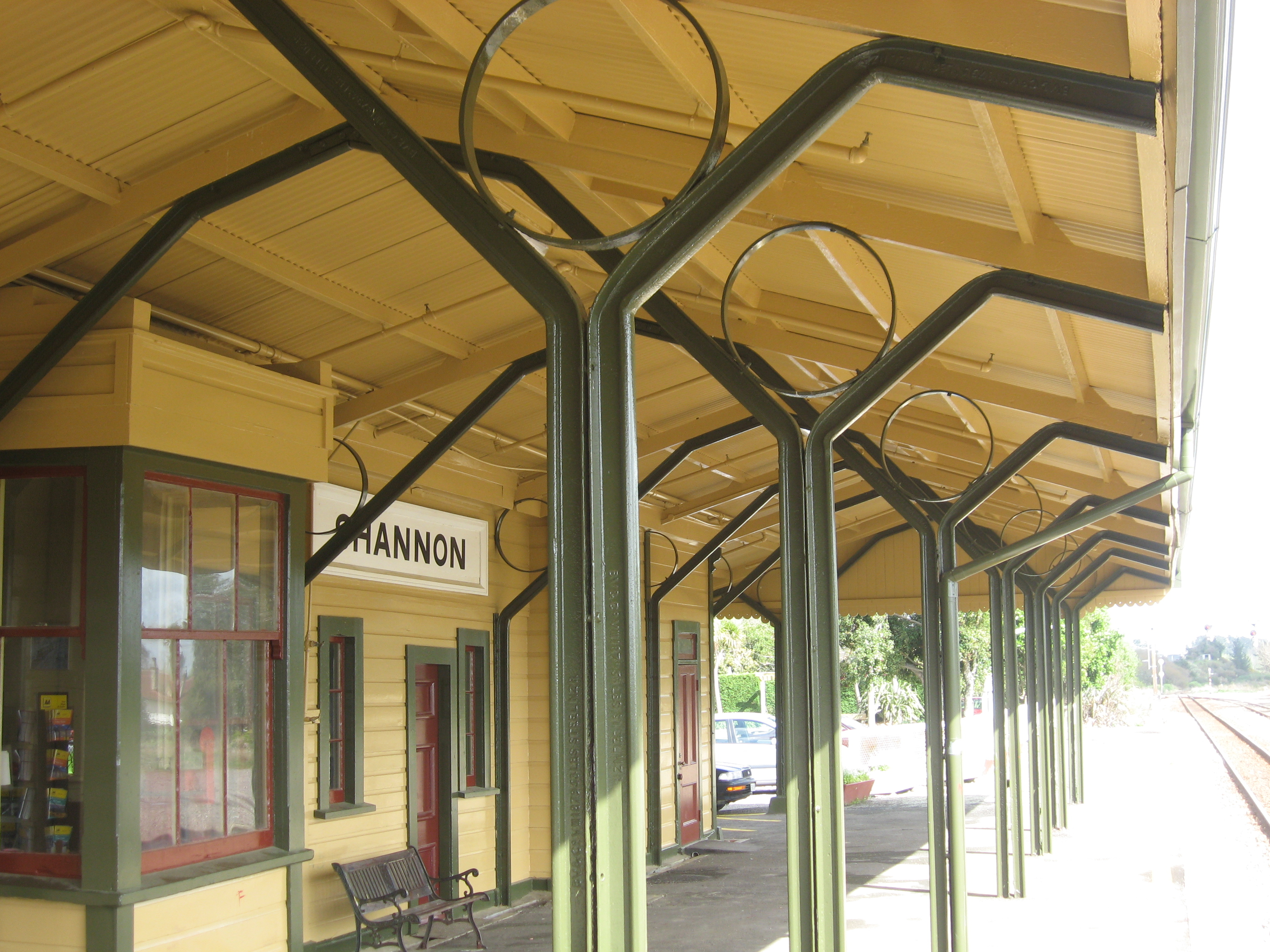 Photograph of Shannon Railway Station, which is the last remaining station built by the Wellington & Manawatu Railway Company. Photograph taken in 2009.